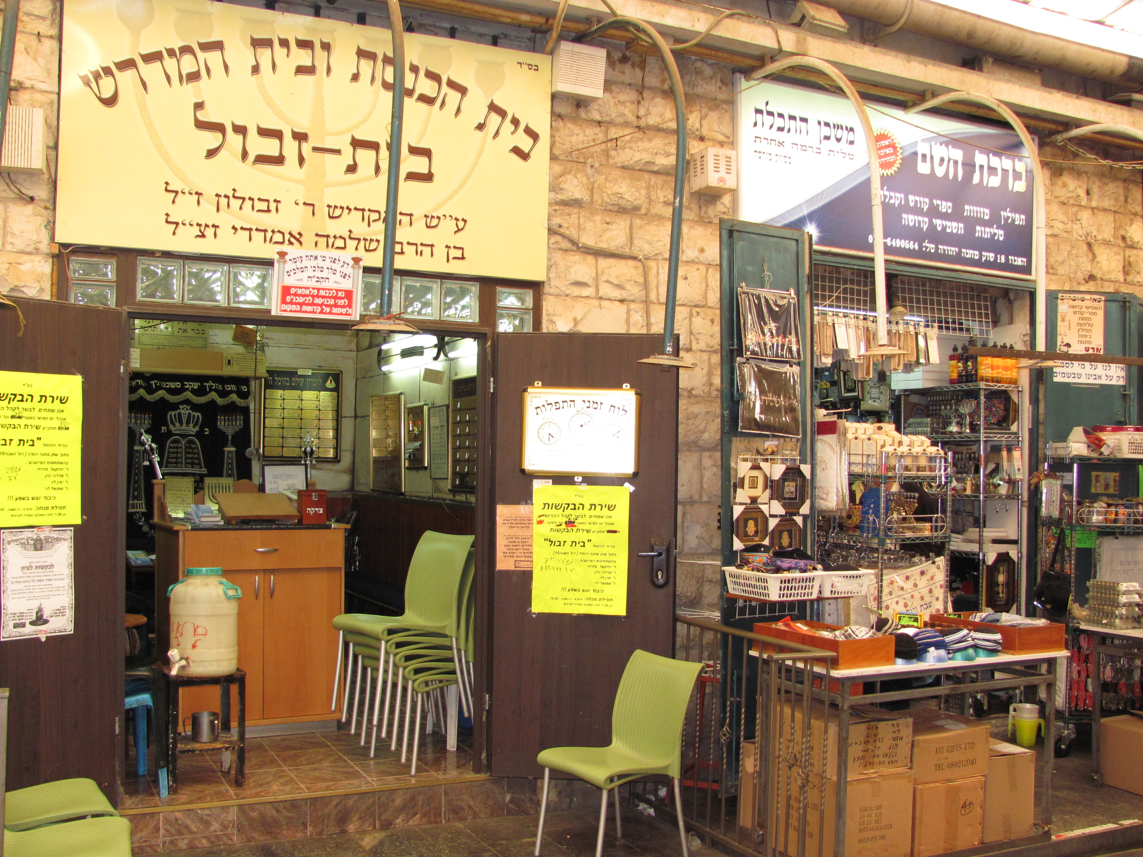 Jerusalem, Mahane Yehuda Market, HaEgoz street, A synagogue named Beit Zvul occupies one of the stalls in the Mahane Yehuda Market in Jerusalem.